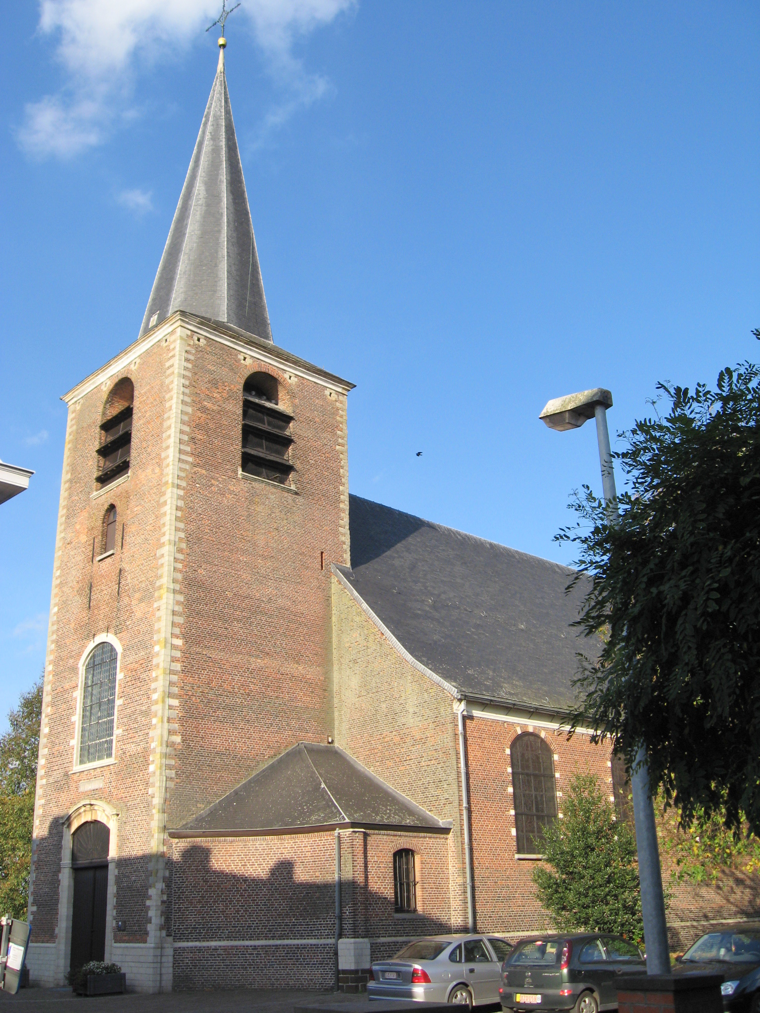 Church of Saint Nicolas in Zoerle-Parwijs, Westerlo, Antwerp, Belgium